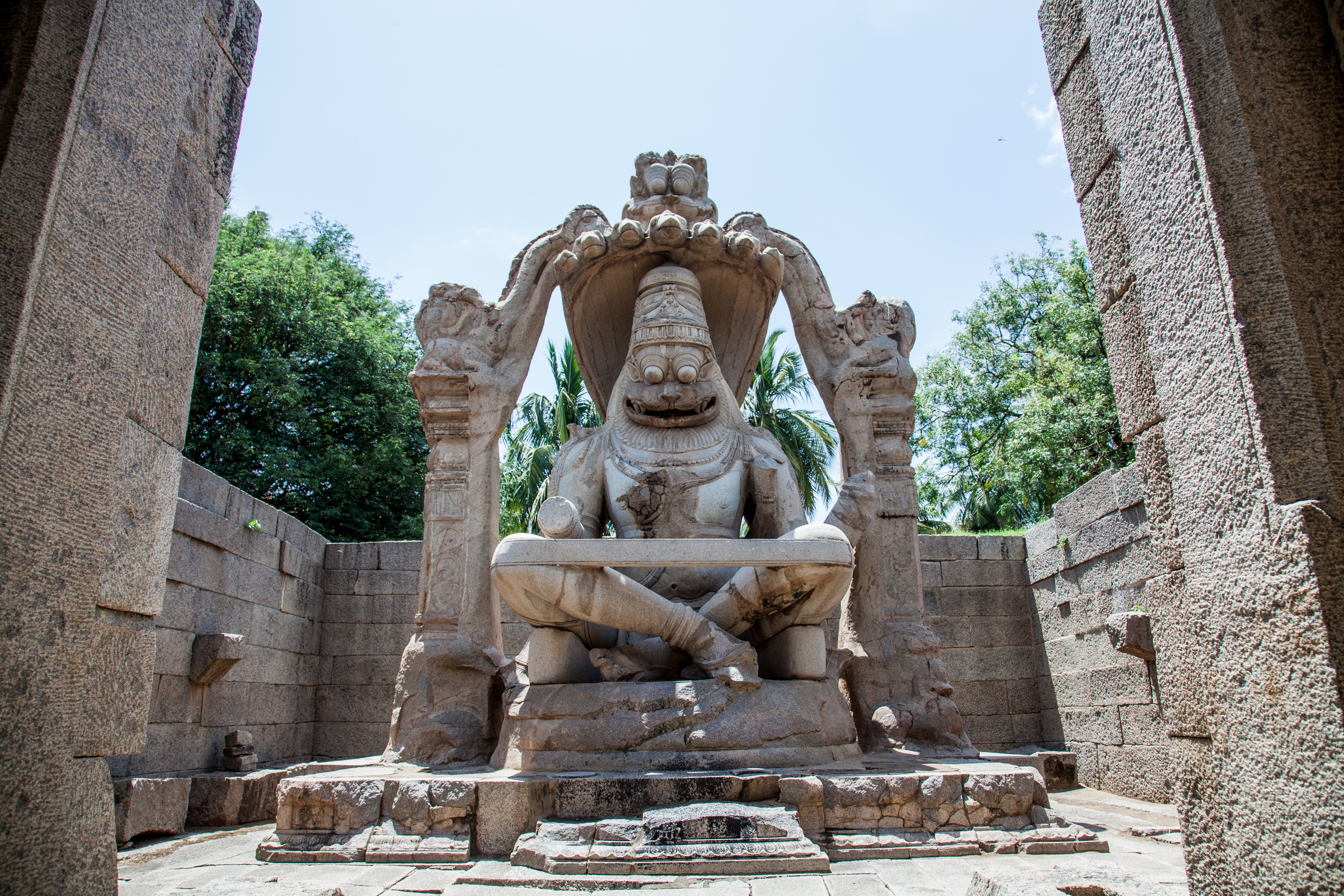 Lakshmi Narasimha